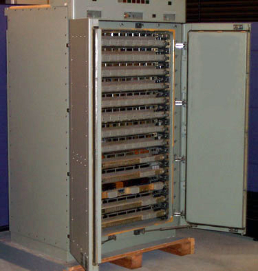 from the english wikipedia: Original Description follows: AN/USQ-20 NTDS computer. I took this photo at the Computer History Museum. Photo by RTC.